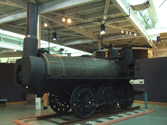 Pioneering railway steam locomotive "Samson" preserved the the Museum of Industry in Stellarton, Nova Scotia.